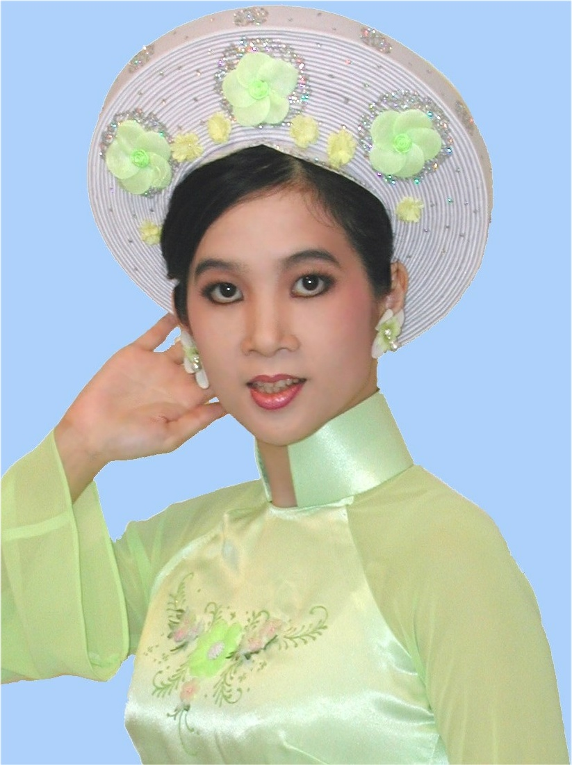 Ngoc Bich Ngan In Vietnamese traditional costume (Áo dài).